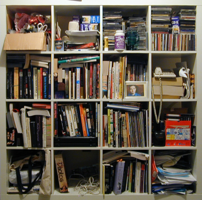 one of our bookshelves, it's got plenty of stuff in it. it's an Ikea Expedit that we bought for its large square shelves that work well to contain our oversized textbooks and graphic novels our paperback and hardcover novels are in another bookcase